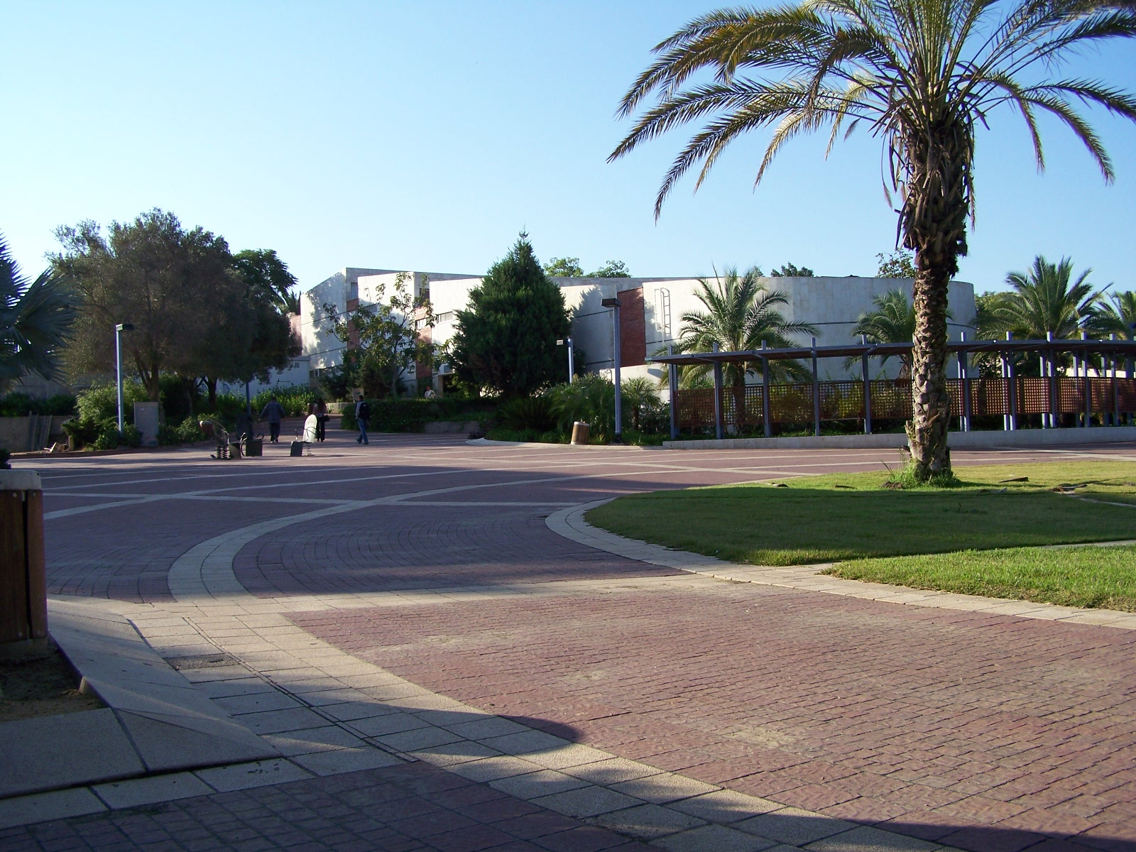 The campus of Sapir College, Sha'ar Hanegev, Israel, 2007